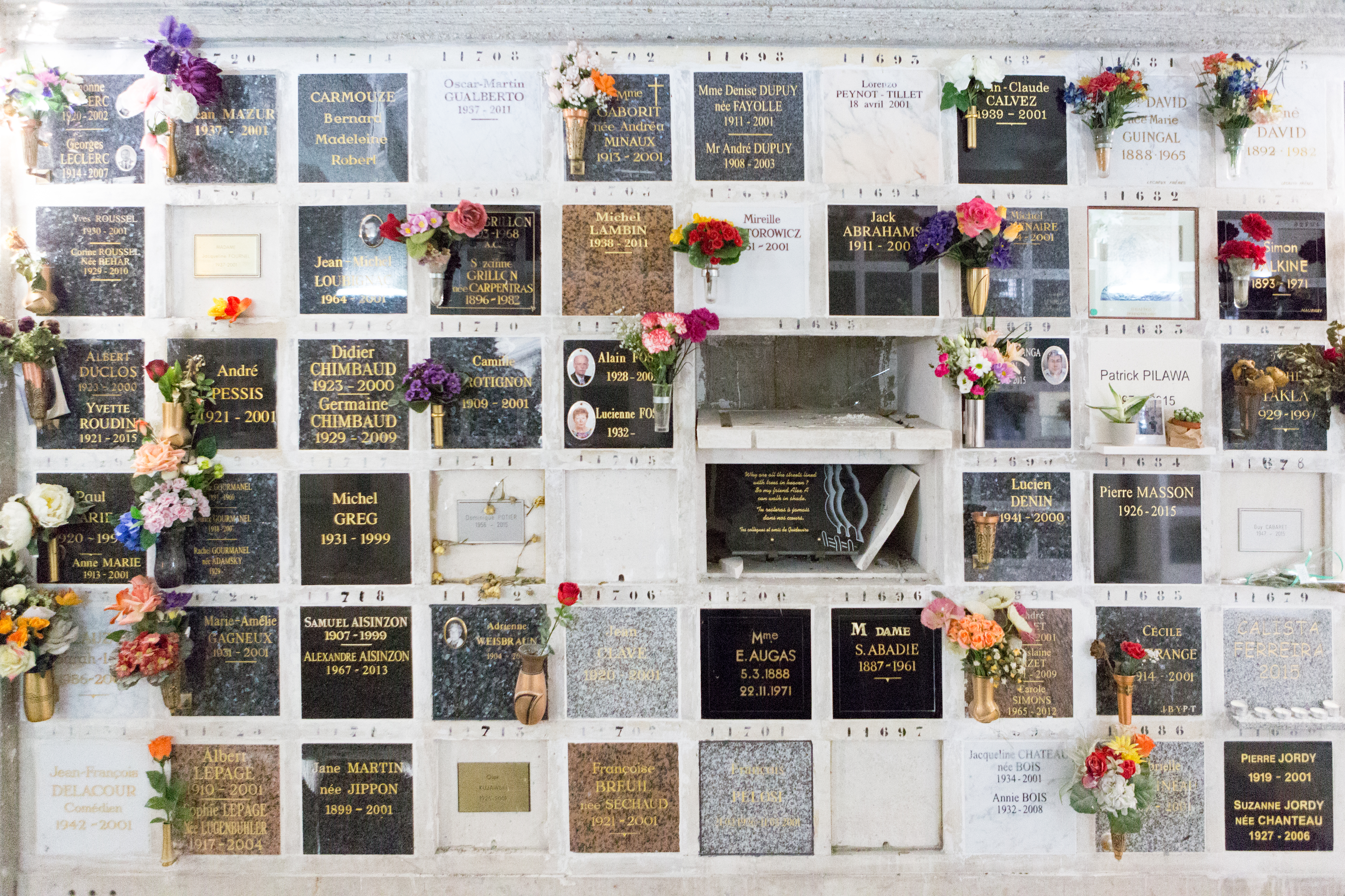 Père-Lachaise Cemetery